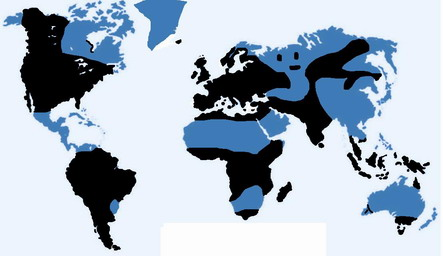 Linаceae distribution in black